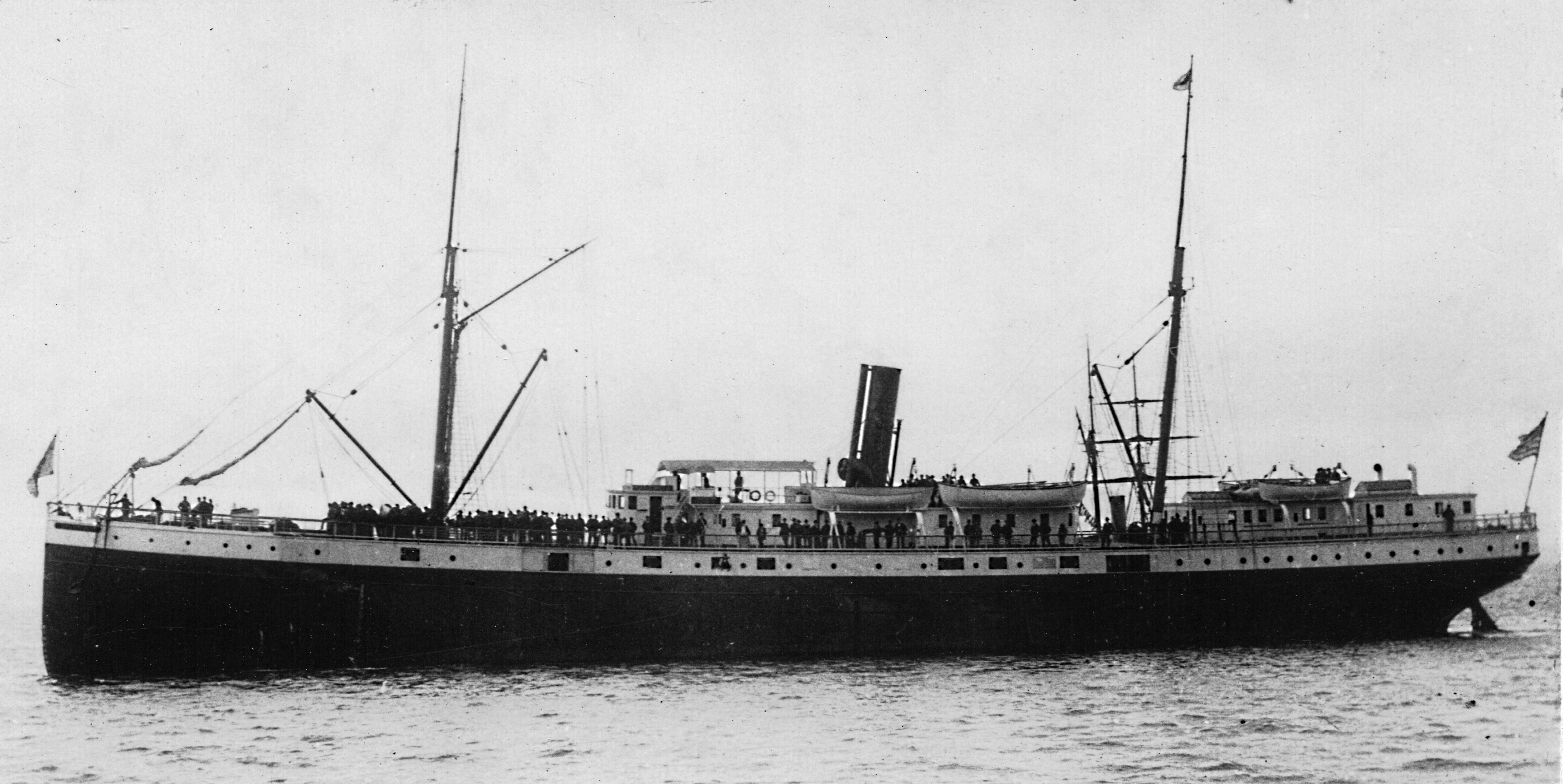 This is a photograph of SS Valencia around 1900, during her service with the Pacific Steam Whaling Company. This ownership would end in 1901 and would be transferred to the Pacific Coast Steamship Company. Five years later, Valencia sank in one of the worst maritime accidents in the Pacific Northwest, killing over 130 people.